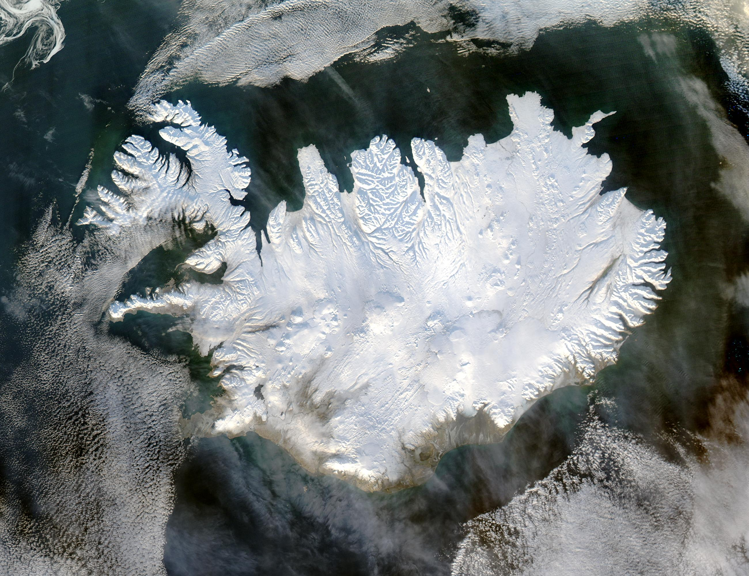 Iceland, from the NASA Visible Earth image gallery. More info below